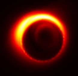 A simulation of the central massive Sagittarius A* black hole by the European Space Observatory